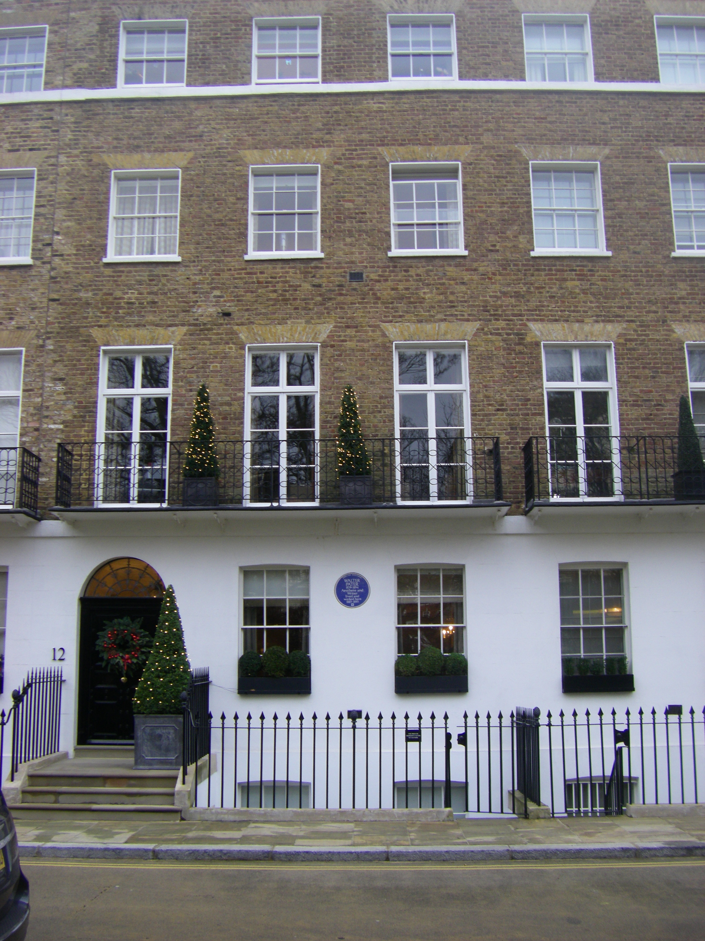 In the mansion number 12 of Earls Terrace in London lived George MacDonald (1865–1867), George du Maurier (1868–1870) and Walter Pater (1886–1893).